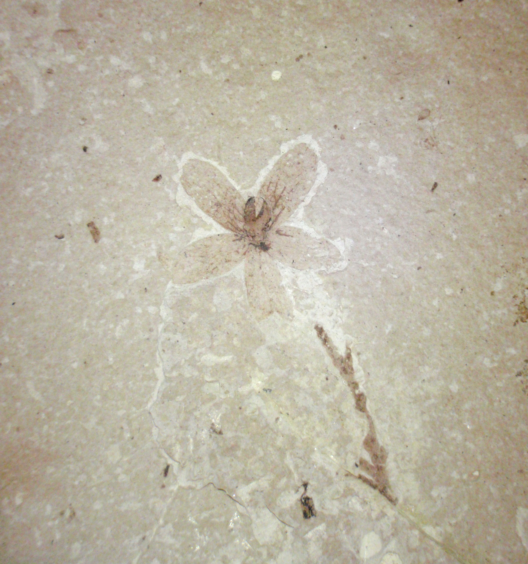 Fossil flower, collected August 2010, from the commercial Clare Family Florissant Fossil Quary, Florissant, Colorado, USA. This fossil dates back to the late Eocene epoch, 35 million years ago.